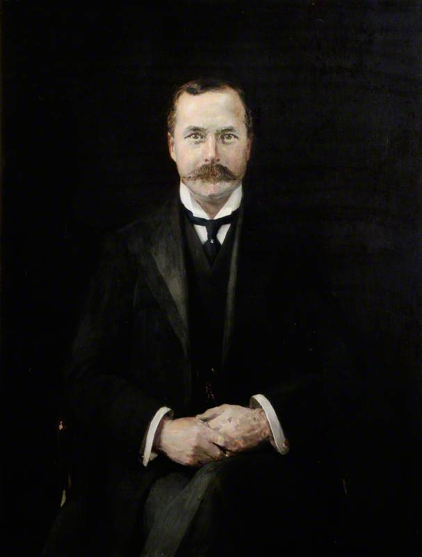 Grant, Alice; Sir Peter Freyer, KCB; University College London Hospitals